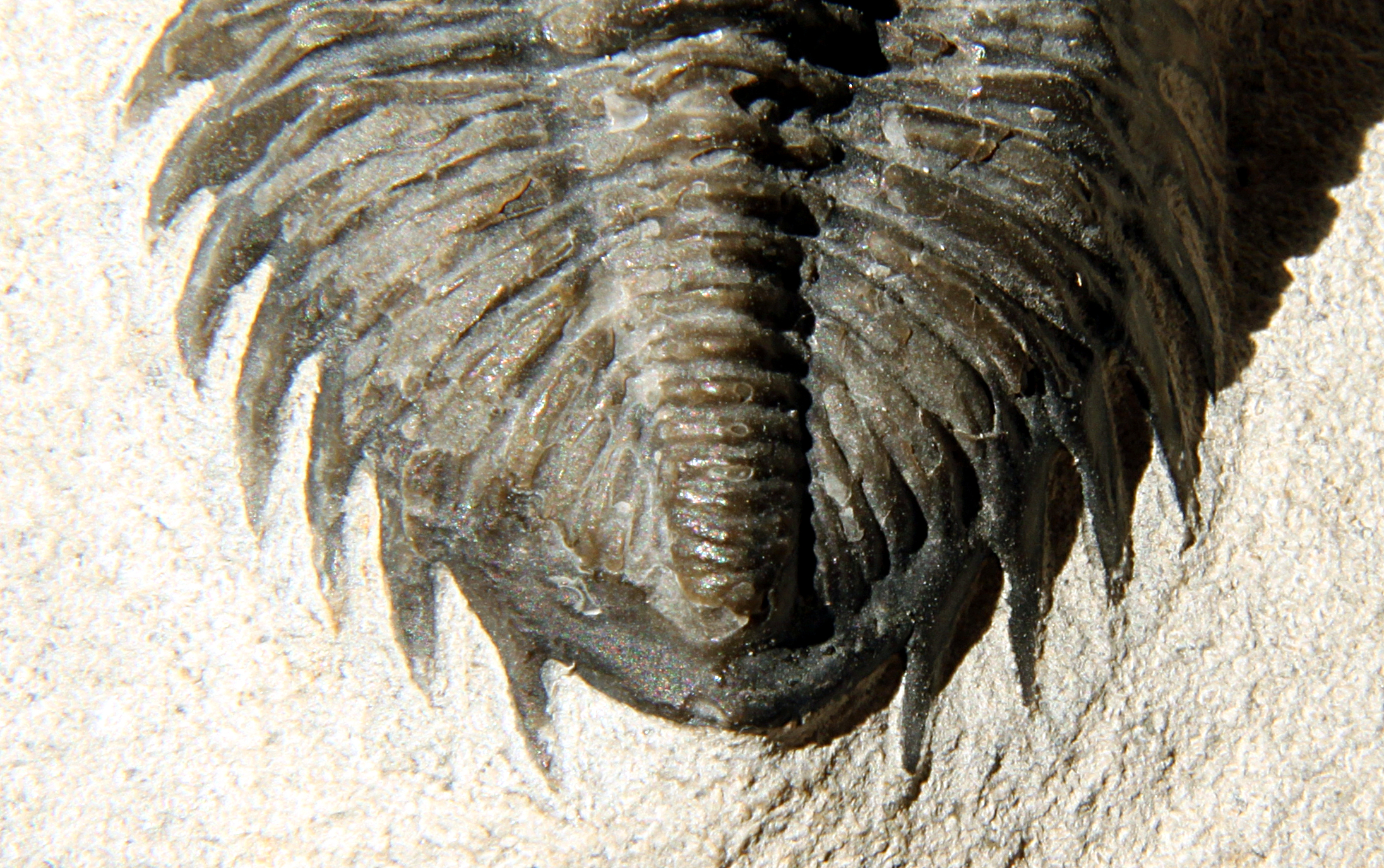 Pygidium of Coltraneia oufatenensis, collected near Oufaten, Marokko, from the Middle Devonian, total length of the specimen 69mm